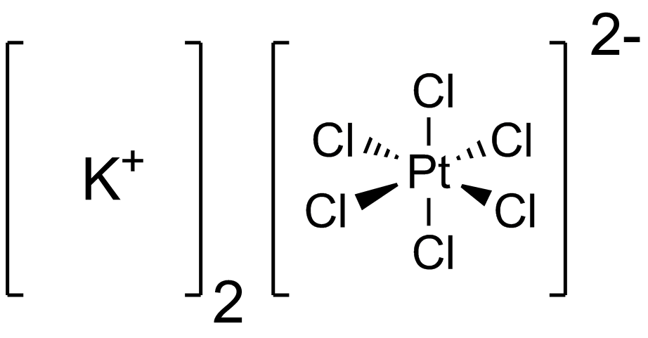 chemical structure of Potassium hexachloroplatinate